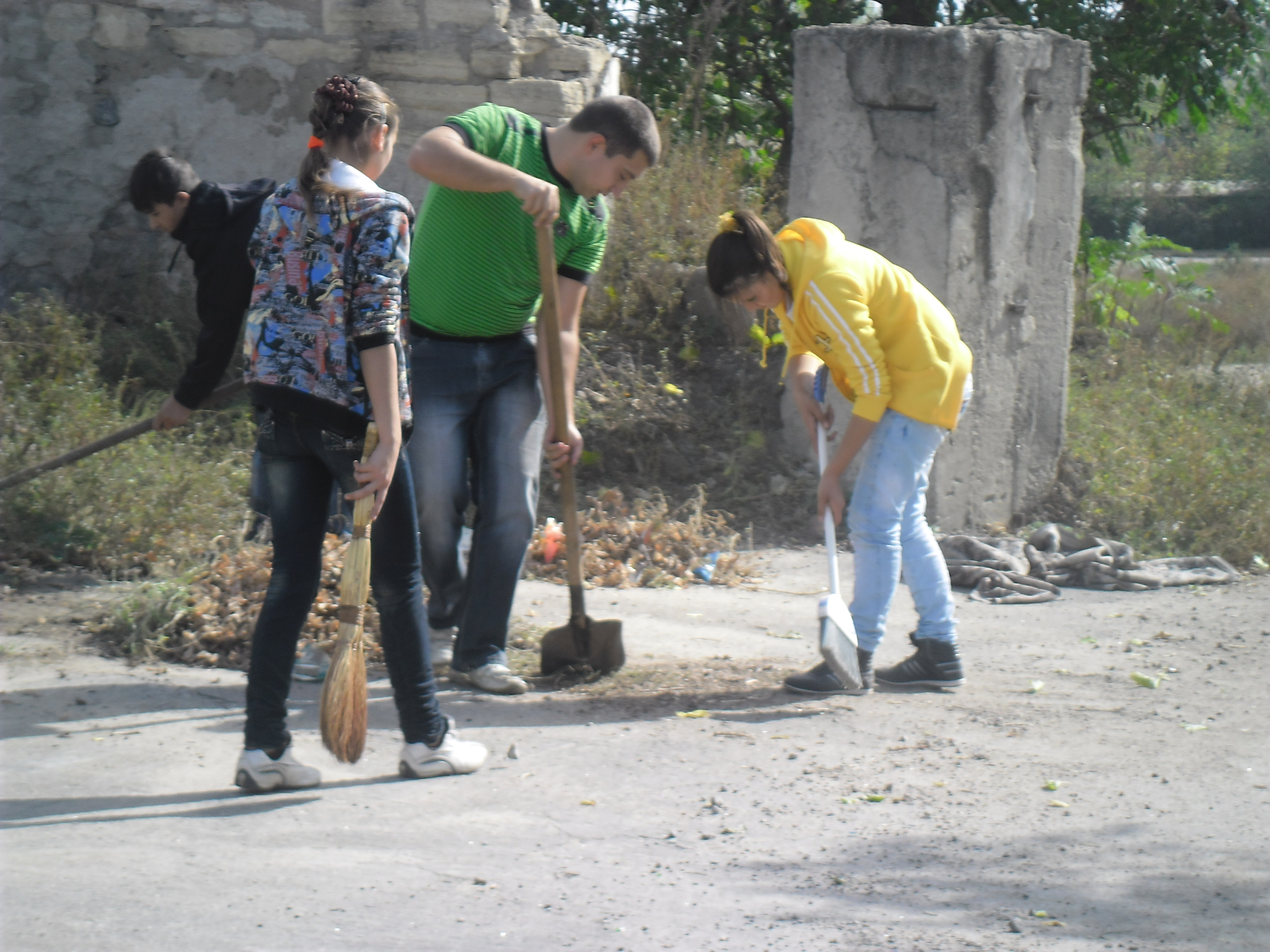 Volunteerism and Community Service in Ukraine Photo Contest, Sept-Nov, 2013